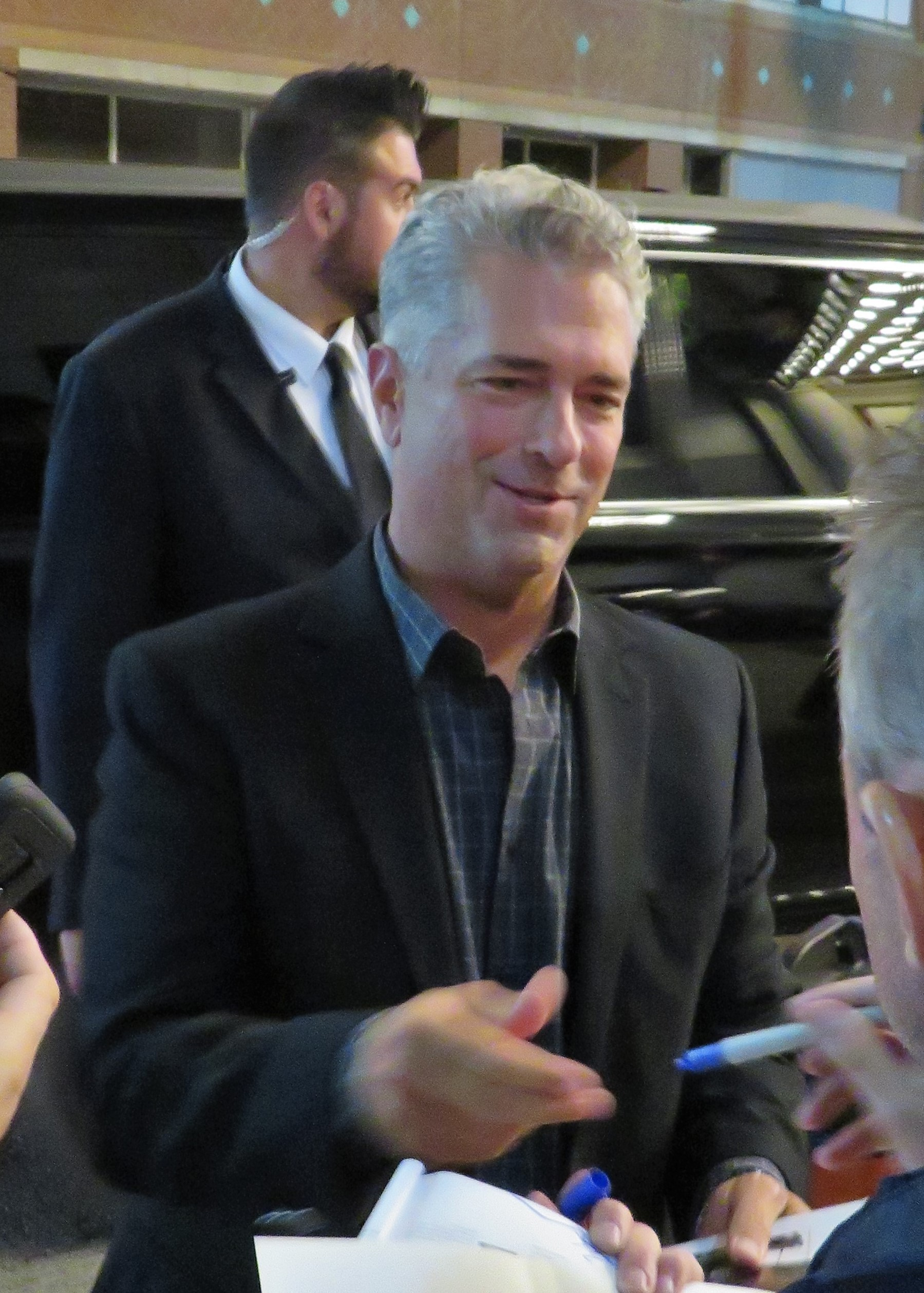 Malek Akkad at the premiere of Halloween, 2018 Toronto Film Festival